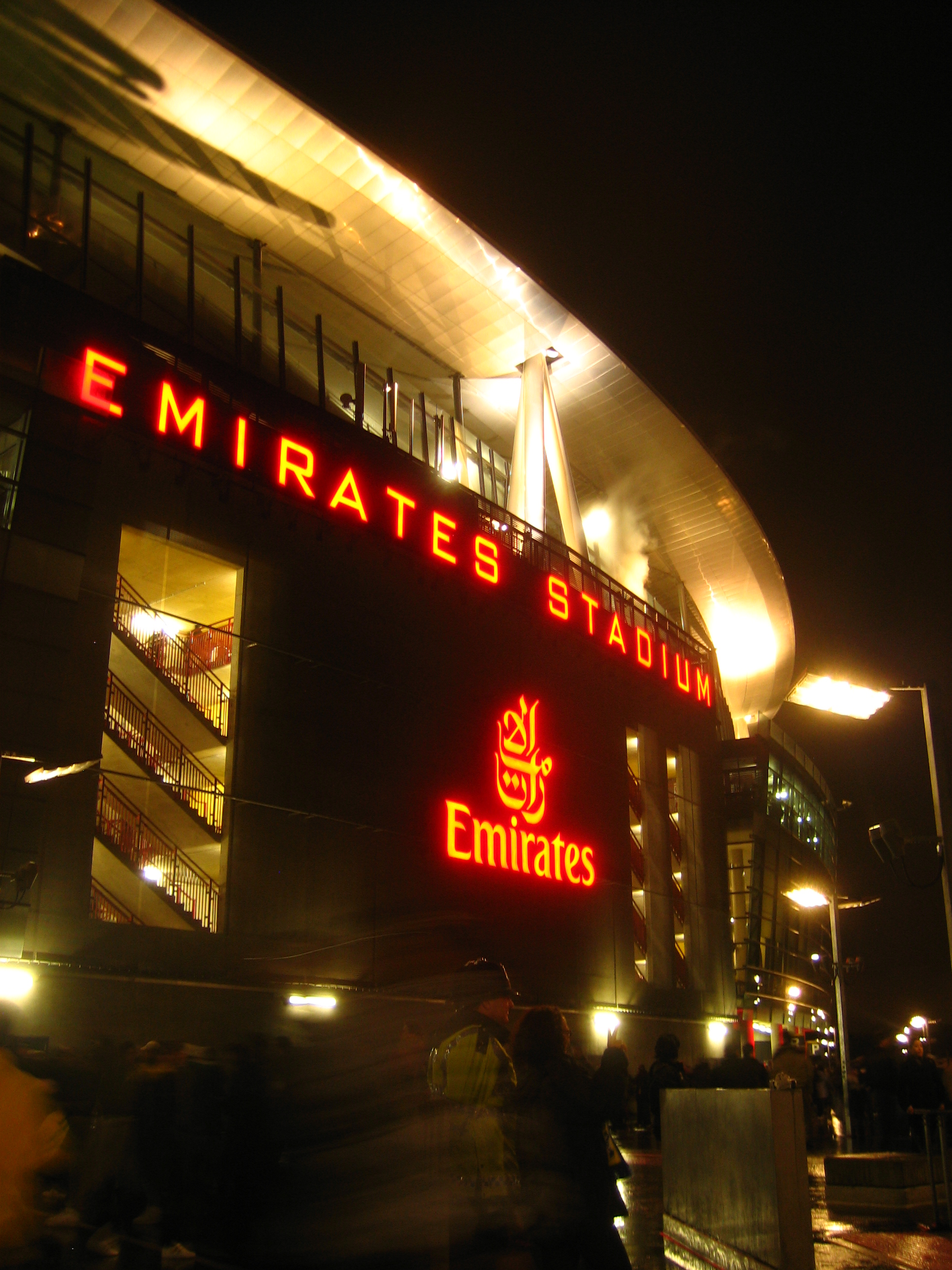 Emirates Stadium, Home of Arsenal FC